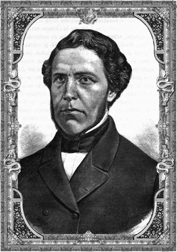 Self-portrait of Juan Bautista Ceballos, Lithograph (1870-1907).